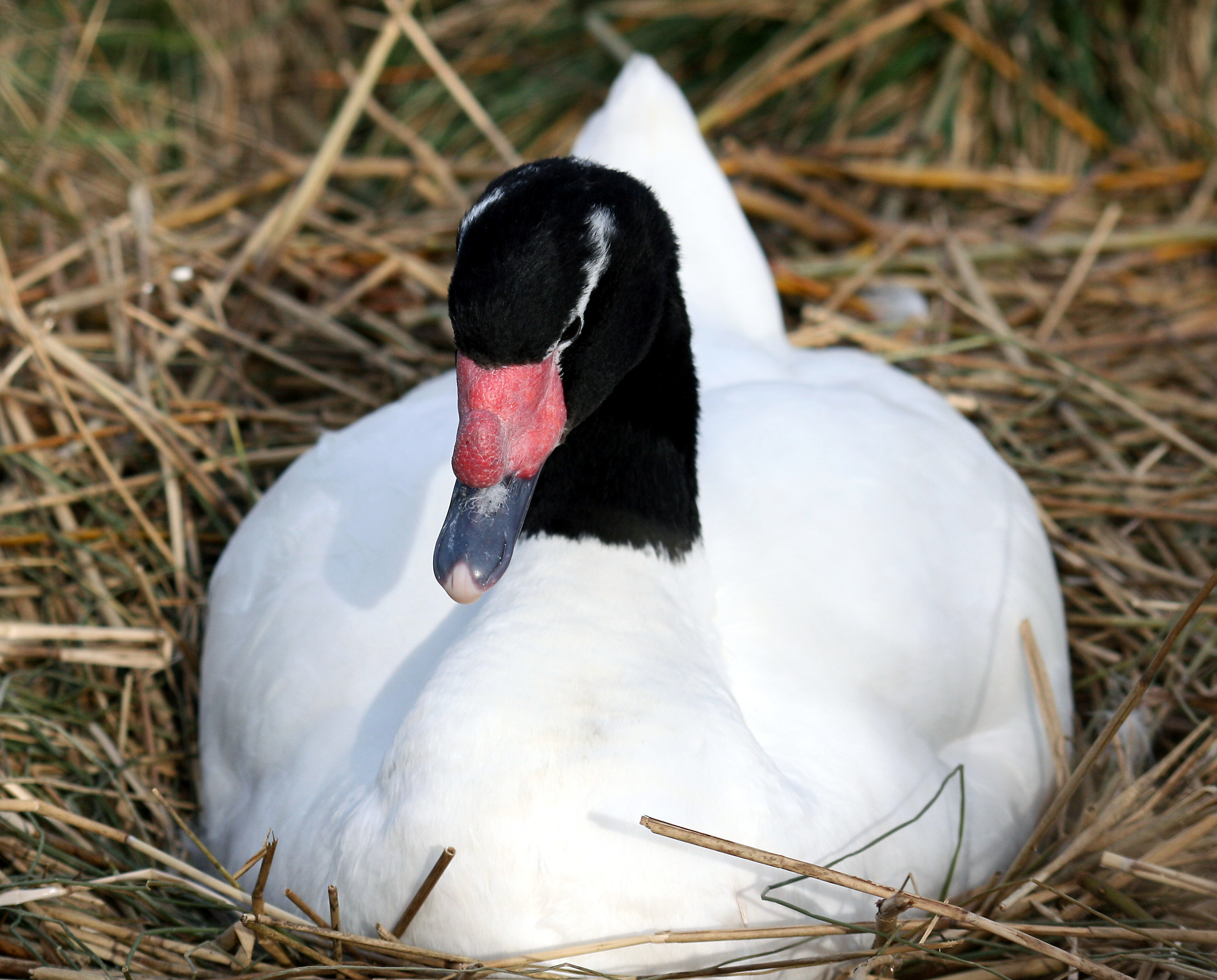 Cygnus melancoryphus - London Wetland Centre, London England - Sunday 3rd February 2008.